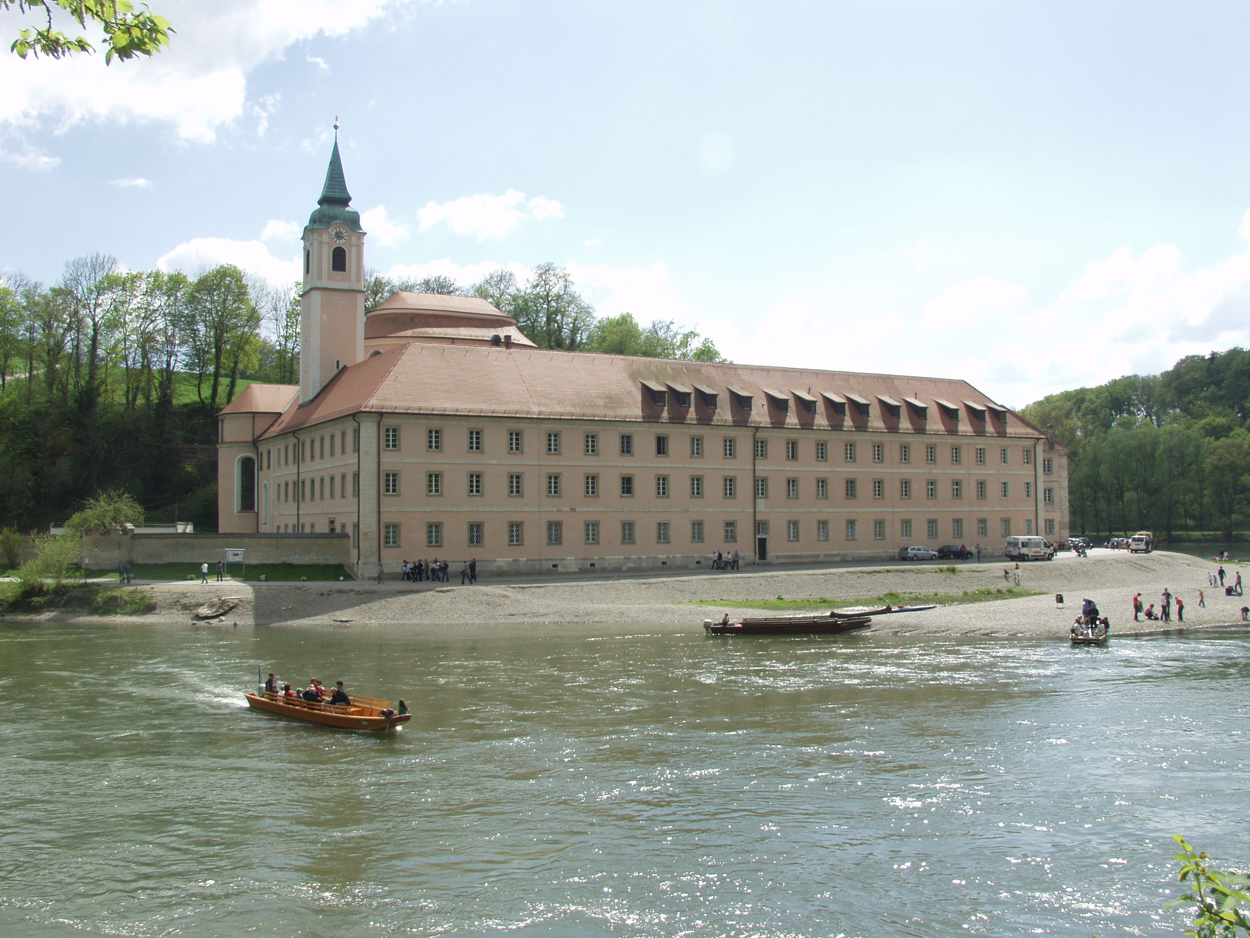 Weltenburg Monastery on the Danube near Kelheim